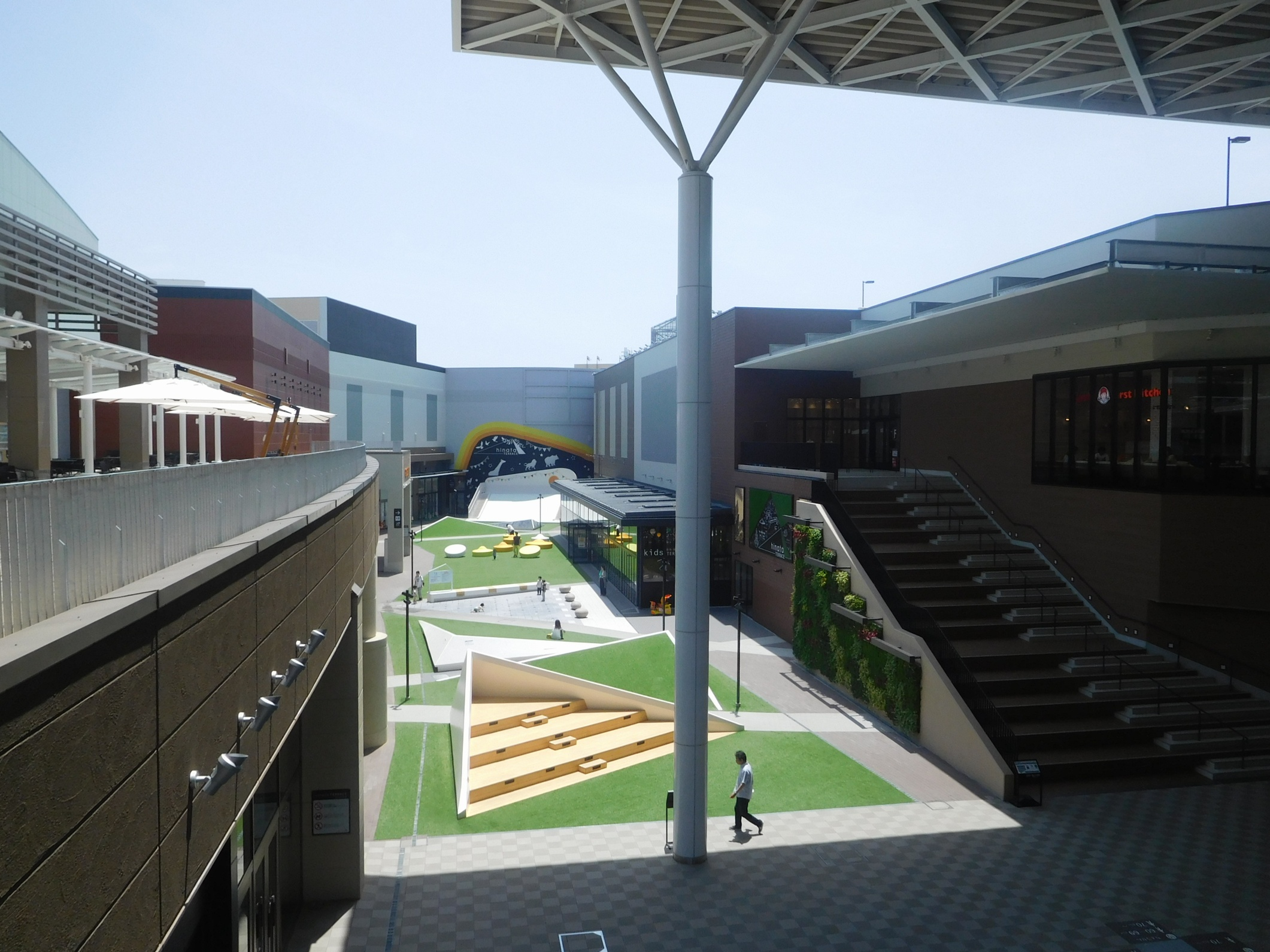 "hinata TERRACE" (Courtyard) at Aeonmall Miyazaki (Miyazaki City, Japan)